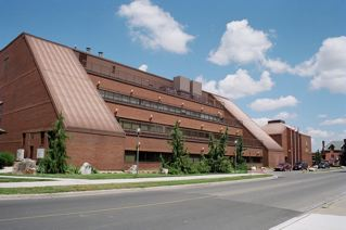 Chatham City Hall, Chatham, Ontario, Canada Summary Chatham City Hall, Chatham, Ontario, Canada